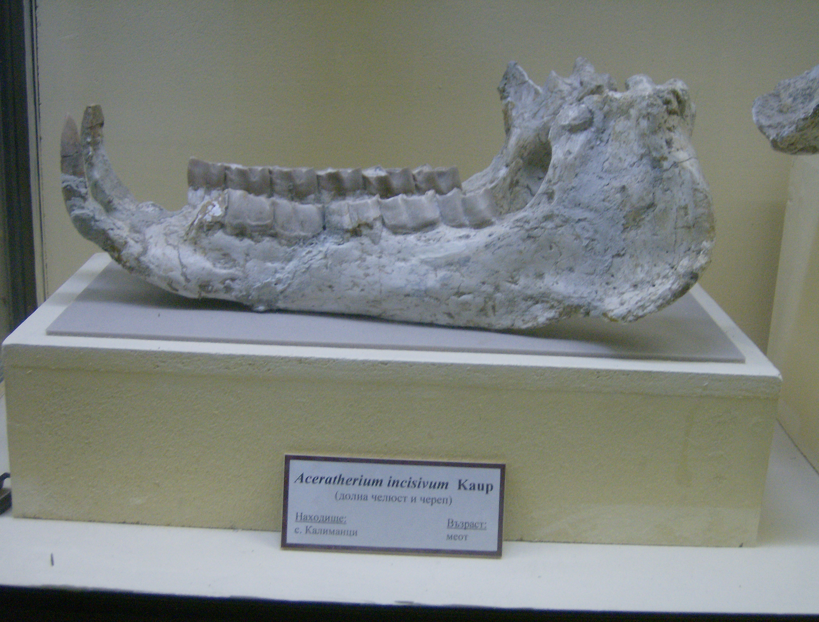 Aceratherium incisivum mandibula, Asenovgrad Paleonthological Museum, Bulgaria